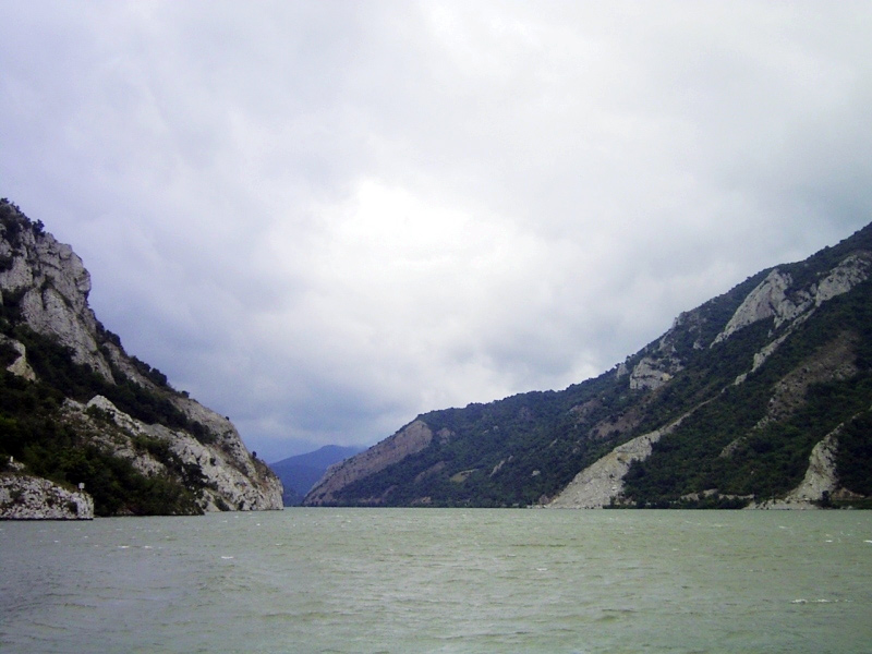 Iron Gate, National Park Djerdap, Danube Breakthrough